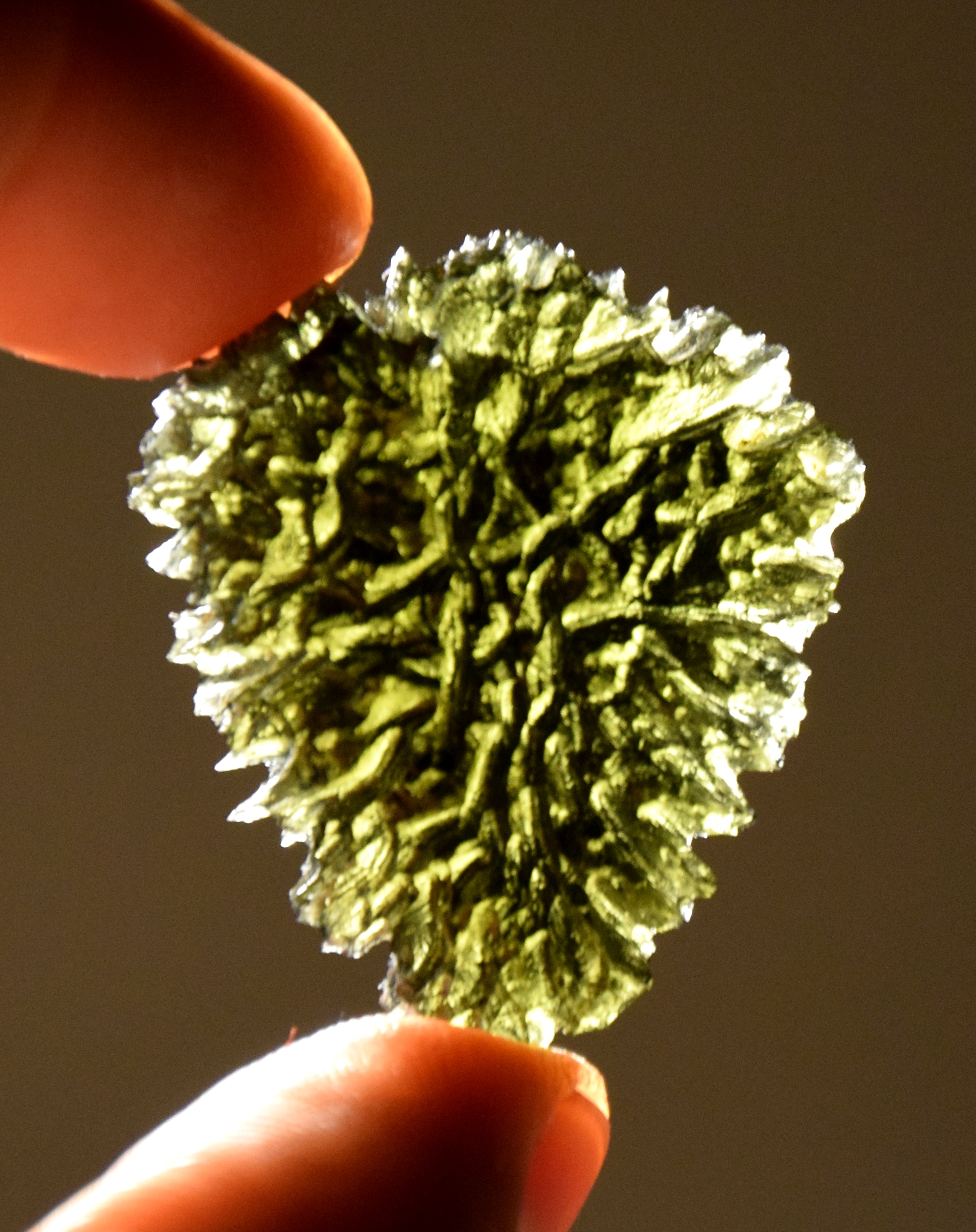 Moldavite Besednice Photo: Onohej Zlatove, Moldavite Association